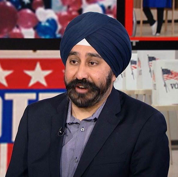 Ravinder Bhalla being interviewed on MSNBC following his election as Mayor of Hoboken in 2017.